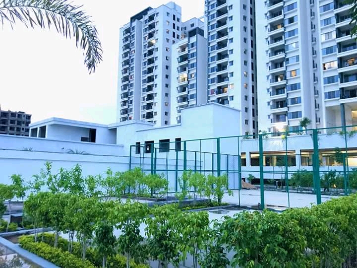 The Hostels